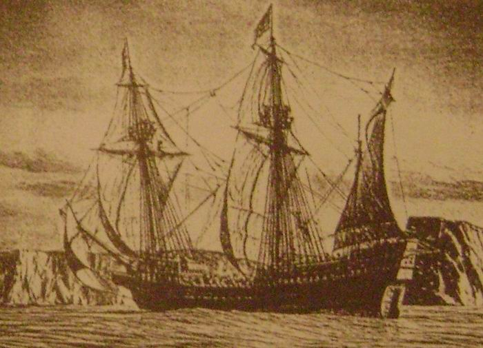 Richard Chancellor in Edward Bonaventure